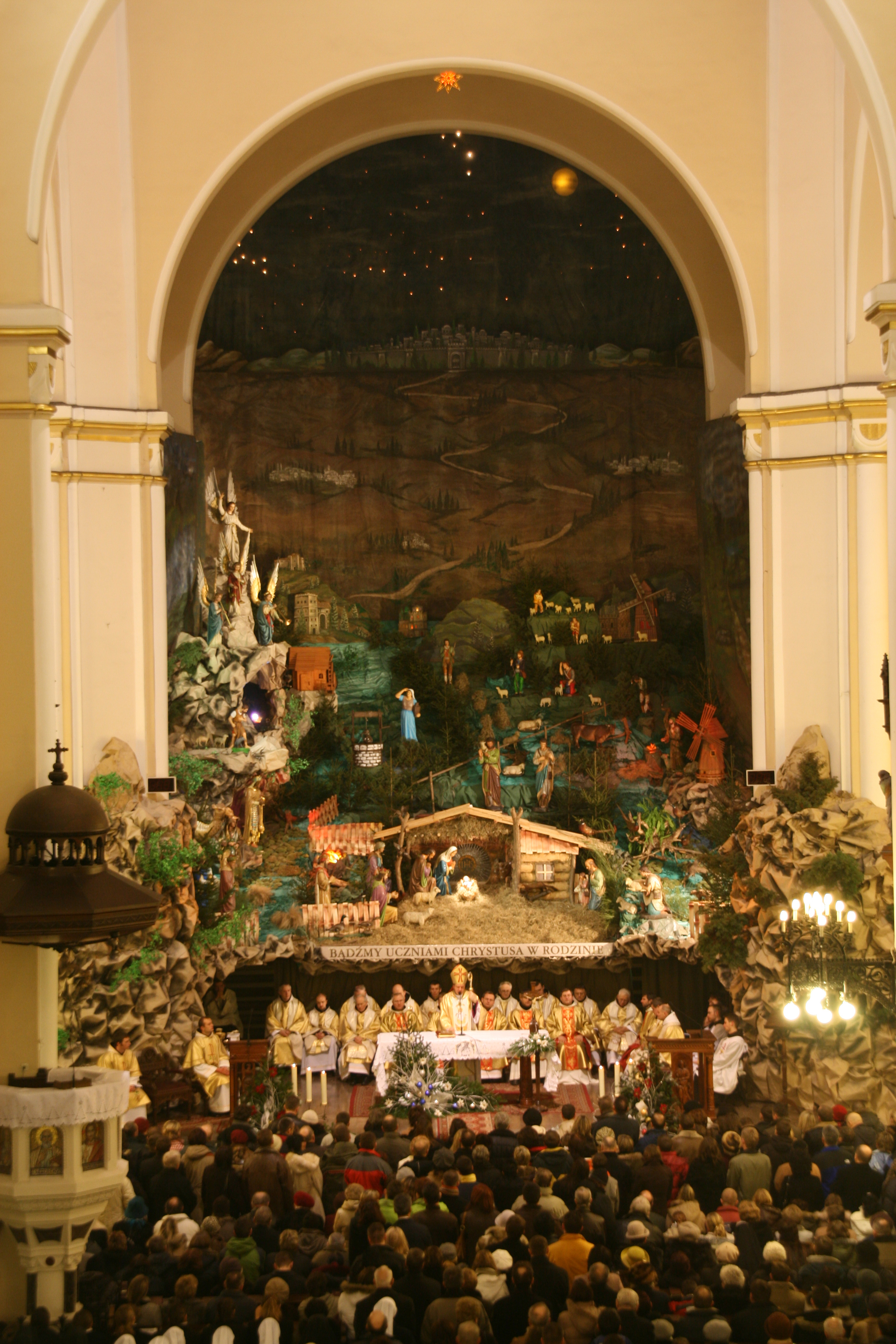 Crib in Katowice Panewniki, Poland (2007, Mass in the front of the manger)